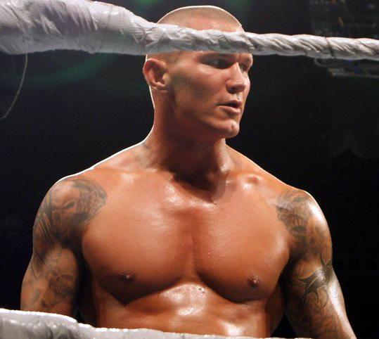 Randy Orton